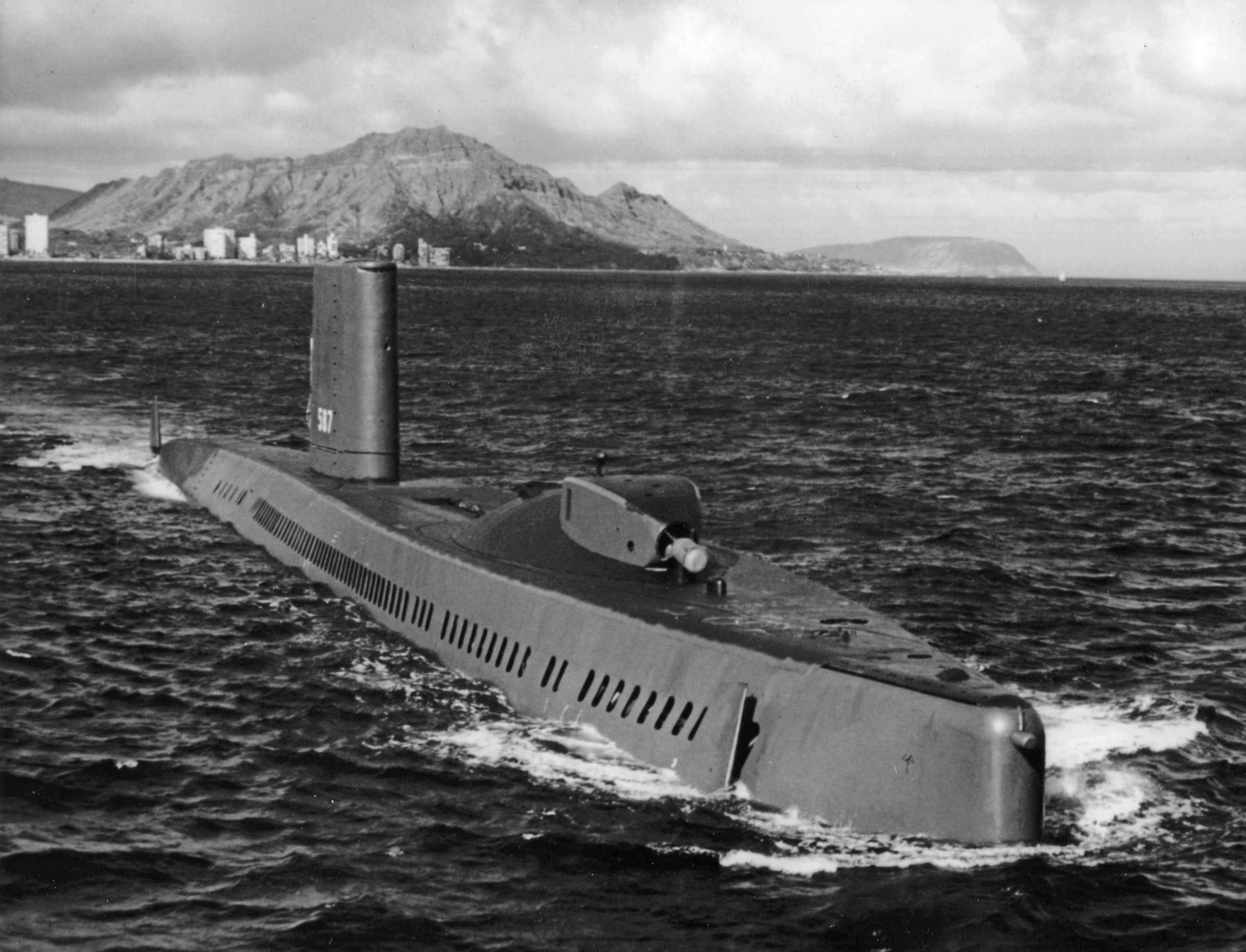 Halibut (SSGN-587) with Diamond Head in the background in late 1965. Note her topside thruster and she has no DSVR (Deep-Submergence Rescue Vehicle) habitat which was later fitted to the topside at the rear of the boat.